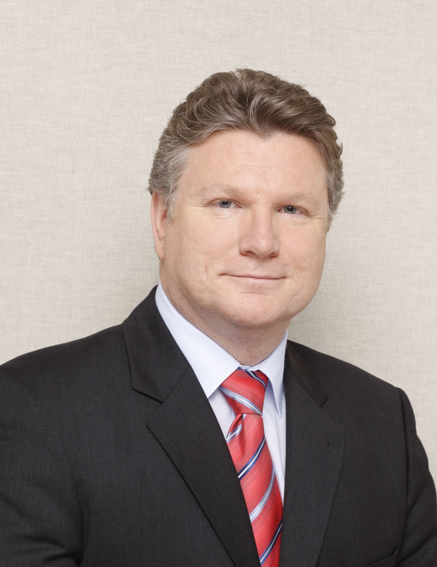 Rüdiger Weiß Parliament of NRW